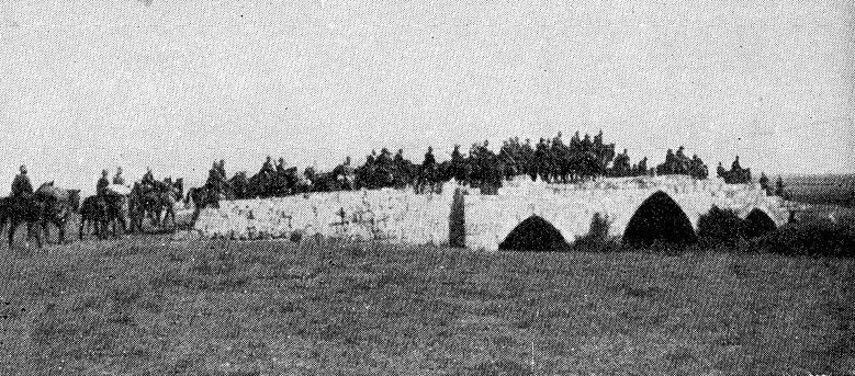 New Zealand Mounted Rifles Brigade crossing the old crusader bridge at Yibna around the time of the Battle of Mughar Ridge